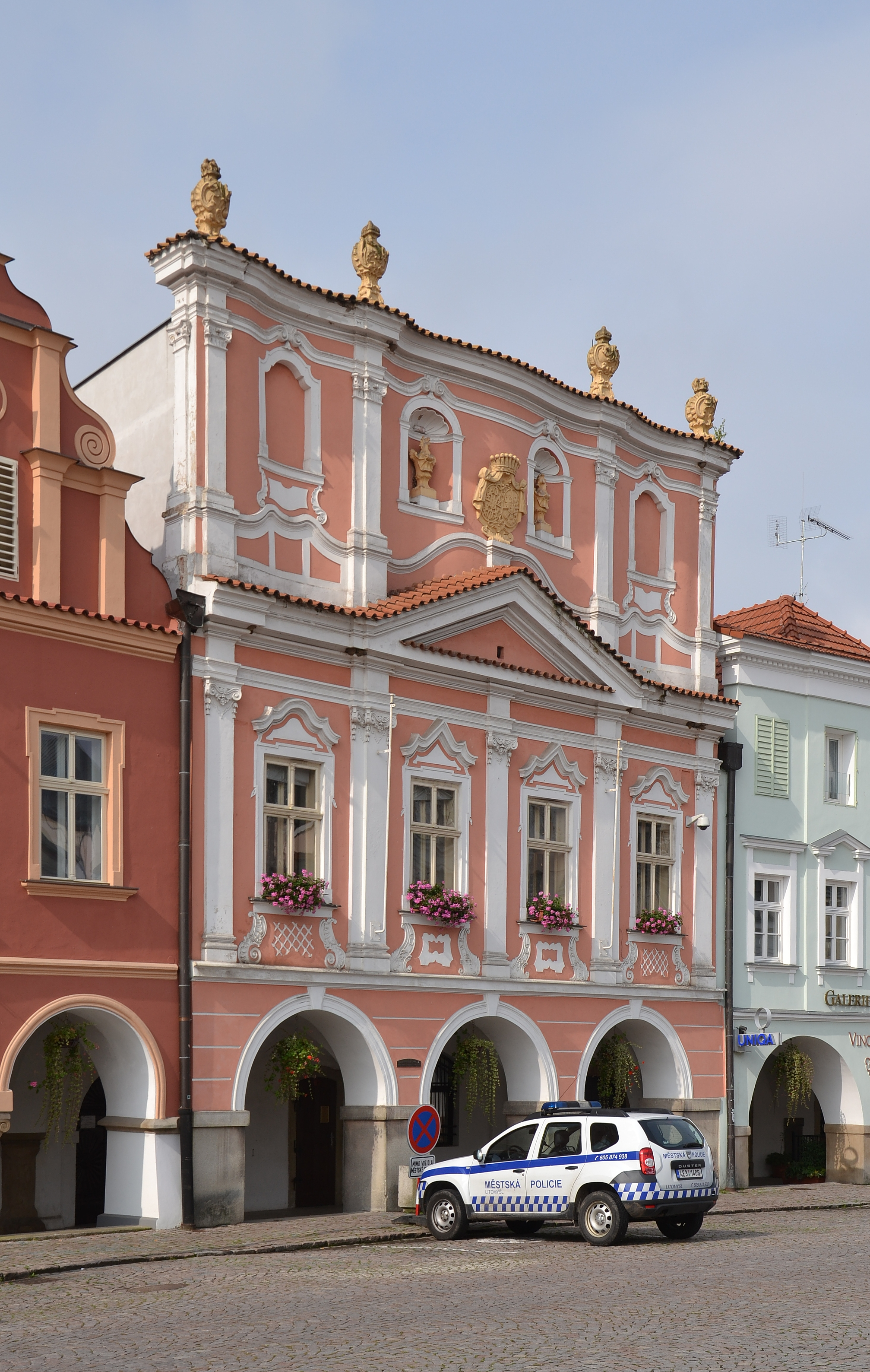 Litomyšl (Leitomischl), Czech Republic - new town hall